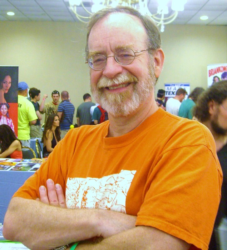 Comic book creator Walter Simonson at the Big Apple Summer Sizzler in Manhattan, June 13, 2009. This photo was created by Luigi Novi. It is not in the public domain, and use of this file outside of the licensing terms is a copyright violation.